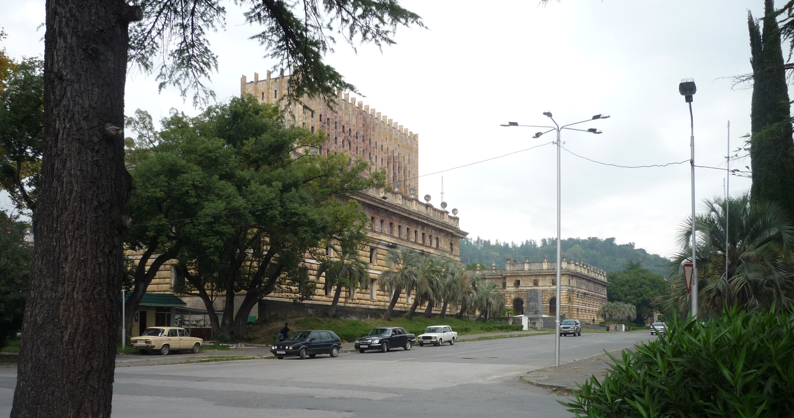 Сухум.Площадь Свободы.